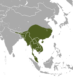 Large Indian Civet (Viverra zibetha) range